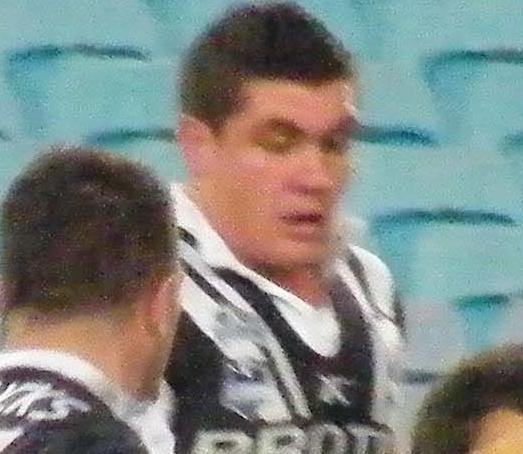 John Morris of the Wests Tigers